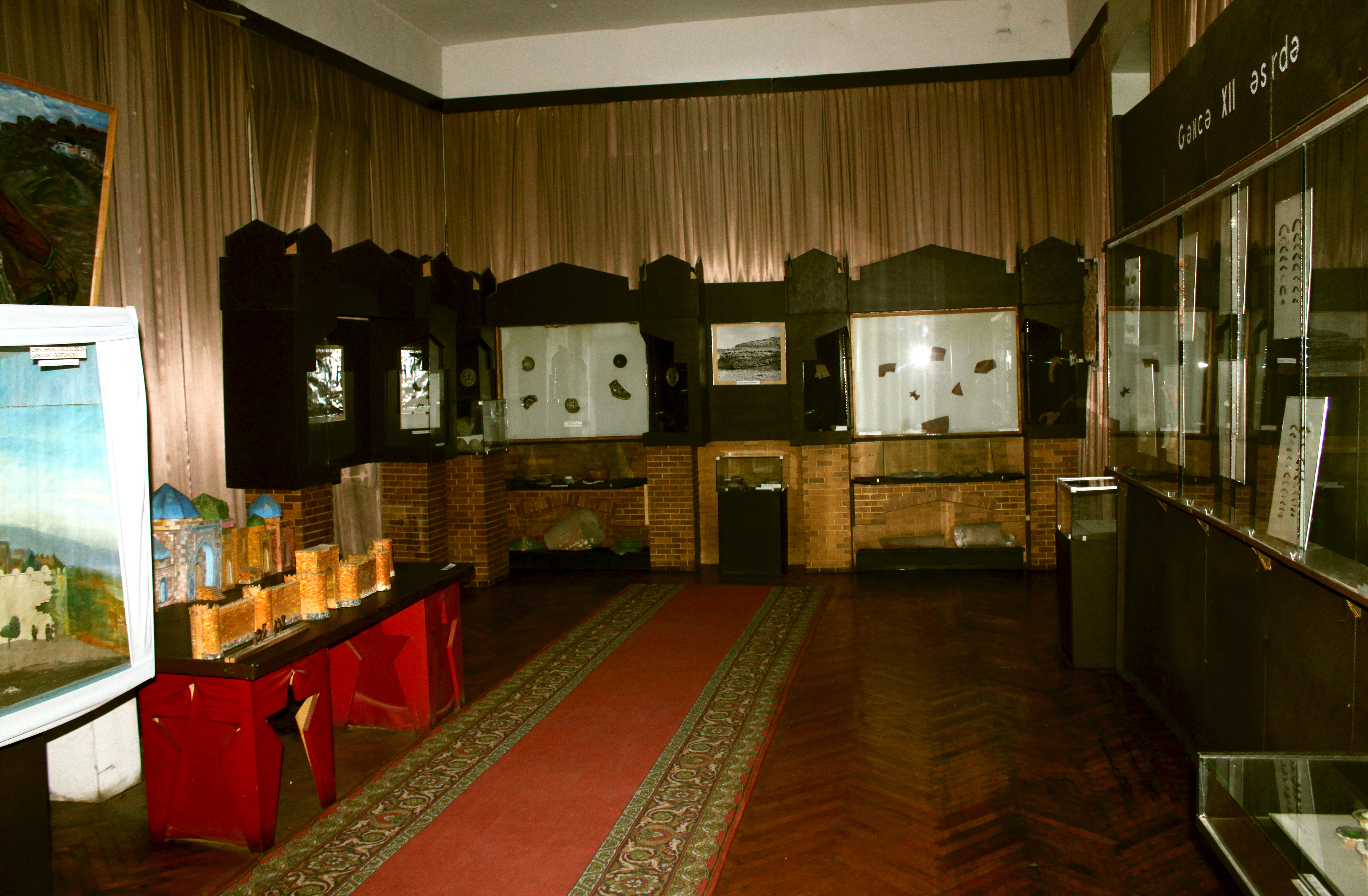 Ganja History - Ethnography Museum